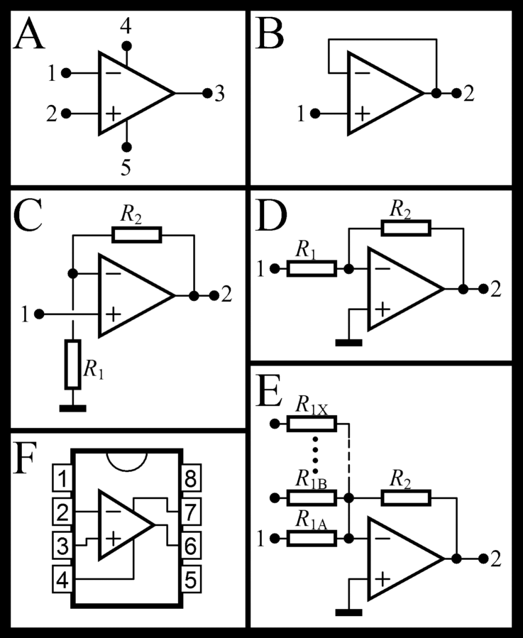 Shows the schematic symbol for an operational amplifier, along with some frequently used schematics for subcircuits involving operational amplifiers, and a diagram showing the de-facto pin-out that is common to a mnultitude of operadional amplifier integrated circuits. Made using the "AutoShape" feature in Microsoft Word '97, "screenshot" and converted to PNG using a graphics software package. A: Schematic symbol - 1=inverting input - 2=non-inverting input - 3=Output - 4=positive supply voltage - 5=Negative supply voltage B: Voltage-follower - 1=Input - 2=Output C: Non-inverting amplifier - 1=Input - 2=Output D: Inverting amplifier - 1=Input - 2=Output E: Voltage-summing circuit - 1=One of multiple inputs - 2=Output F: De-facto pin-out for many op-amp integrated circuits